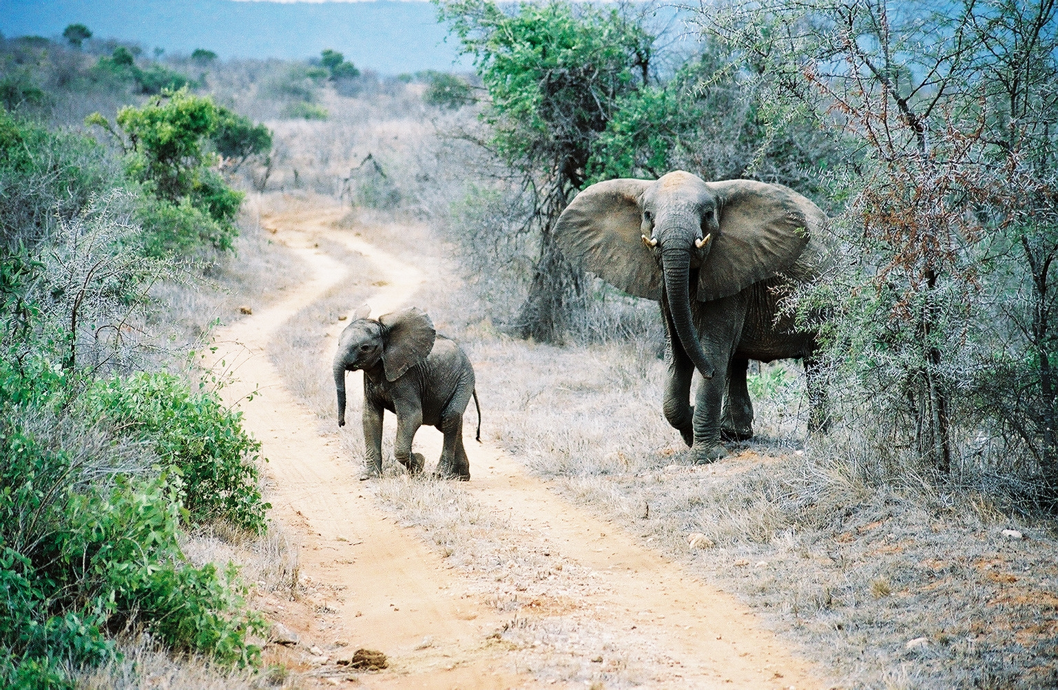 Elephant and Calf crossing road in Tsavo East National Park, Kenya. Taken in August 2003 by Wikipedia contributor Key45.